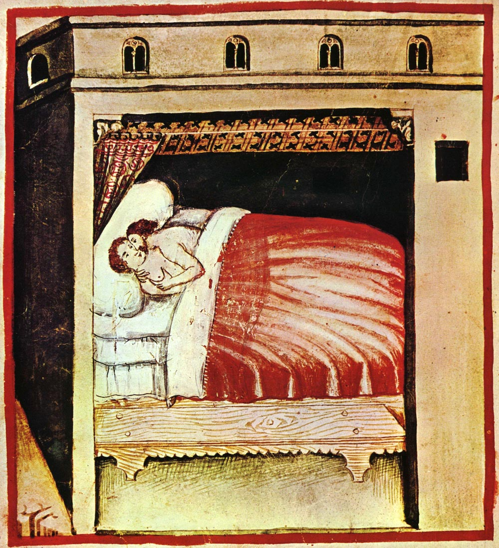 Coitus Liber Tacuina sanitatis (XIV century), Ububchasym Baldach, s. XIV-XV, Bibliotheca Casanatense Roma. Italia.